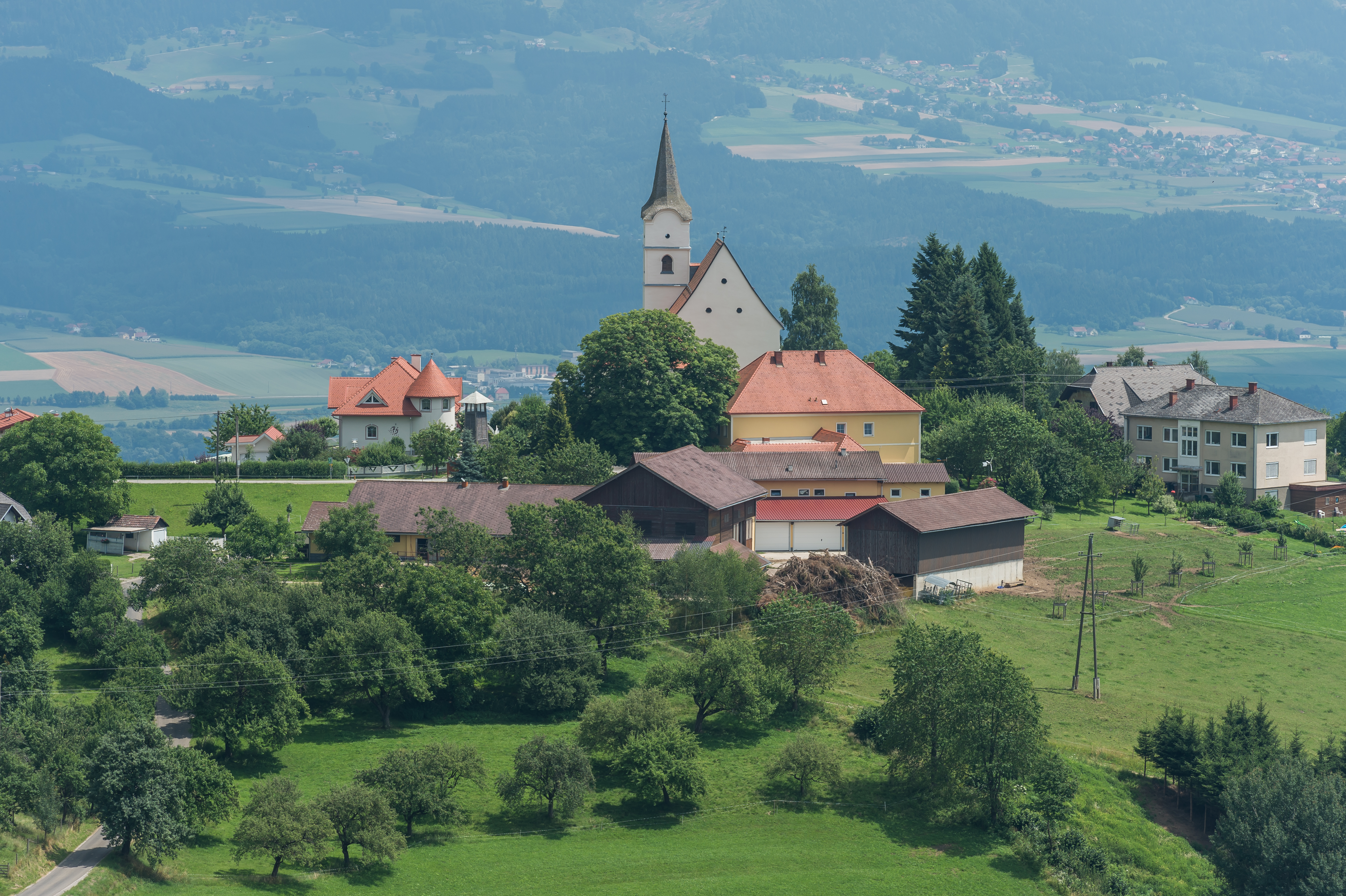 Parish church Saint John the Baptist and elementary school at the mountain village Pölling, municipality St. Andrae in Kaernten, district Wolfsberg, Carinthia, Austria, EU